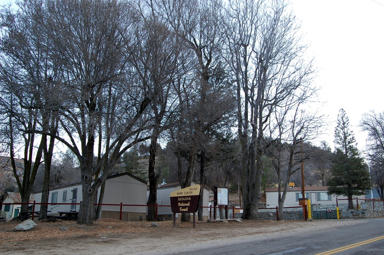 Possibly the facility furthest south in Sequoia Nation Forest is Havilah Work Center on Caliente-Bodfish Road. Photo circa 2007. This image: Was captured using film or digital camera equipment. May lack artistic merit but documents the existence of the subject. May have had elements including colors, composition, gamma, exposure, or size adjusted using camera-, lens-, scanner-settings or by applying image editing software. May have had aberrations, flare, or reflections removed in order that the subject of the image is more clearly visible. Is intended to be representative of the view of the subject that would be perceived by a human eye.